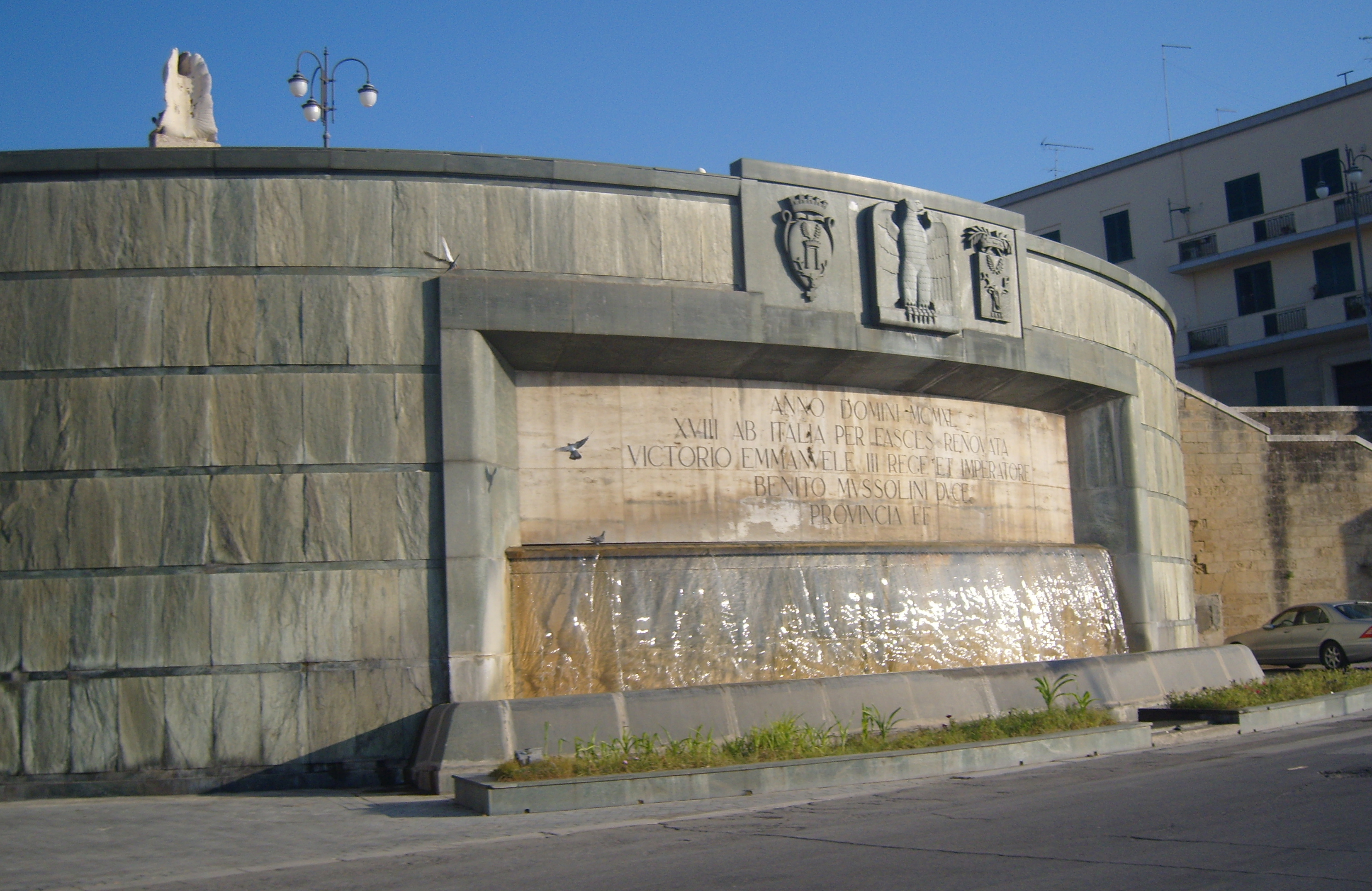 Fontana Monumentale in Brindisi